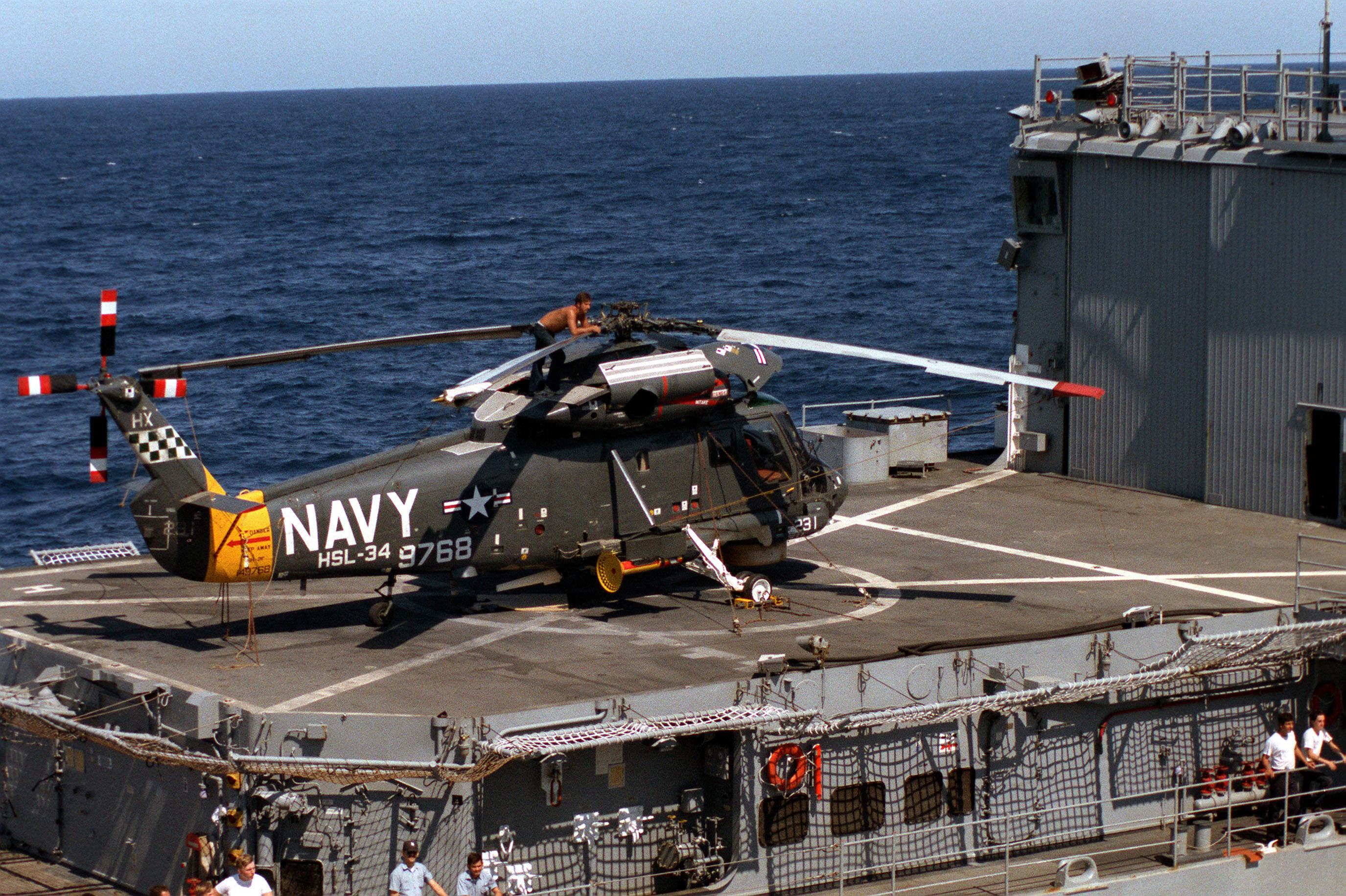 A U.S. Navy Kaman SH-2F Seasprite (BuNo 149768) from Light Helicopter Anti-submarine Squadron 34 (HSL-34) sits on the flight deck of the destroyer USS Deyo (DD-989) in 1982. The SH-2F 149768 had originally been delivered as an UH-2A an was retired to the AMARC as 8H0034 on 28 May 1993.